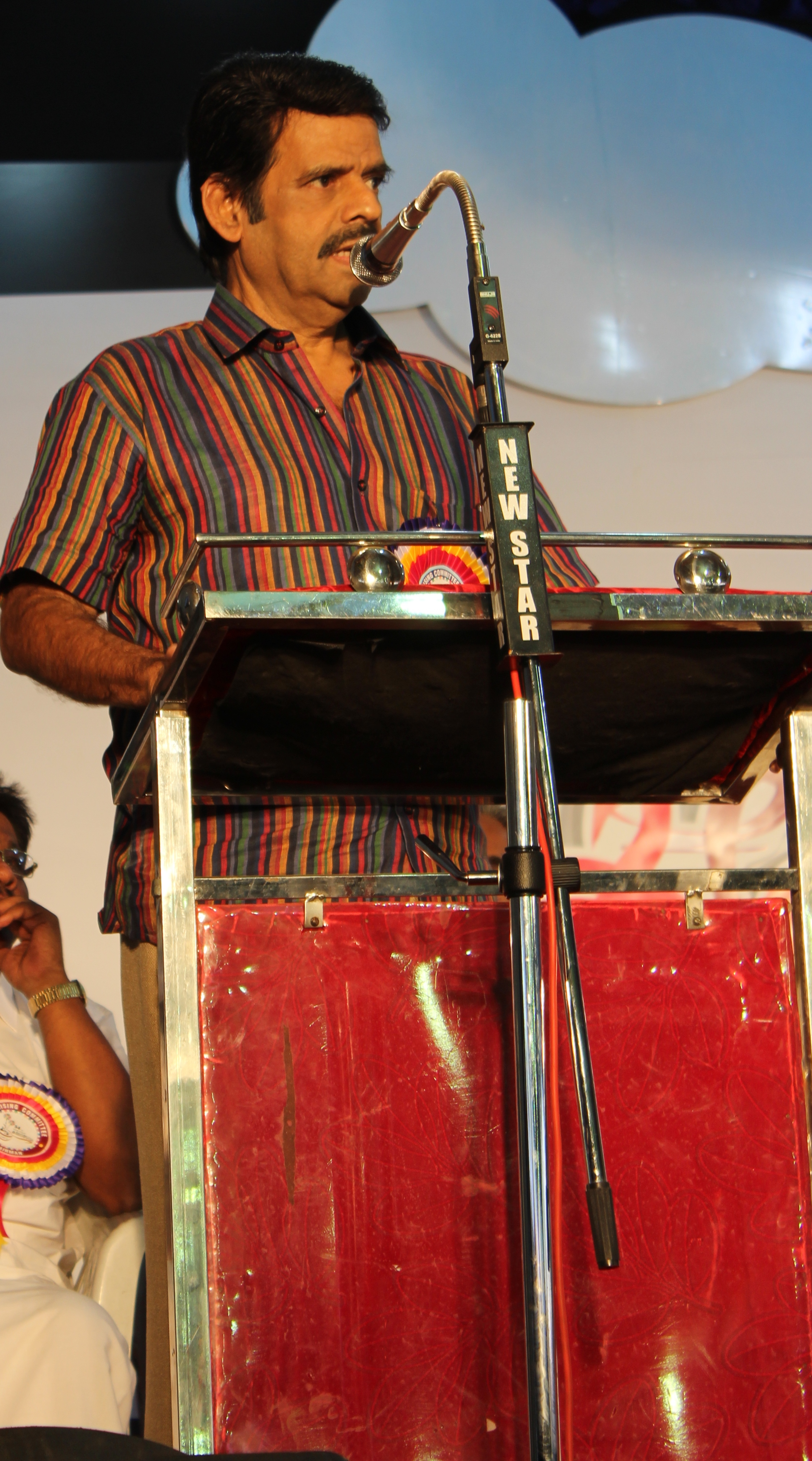 Balachandra Menon is an Indian film actor, director, script writer, lyricist, and producer who works in Malayalam cinema.